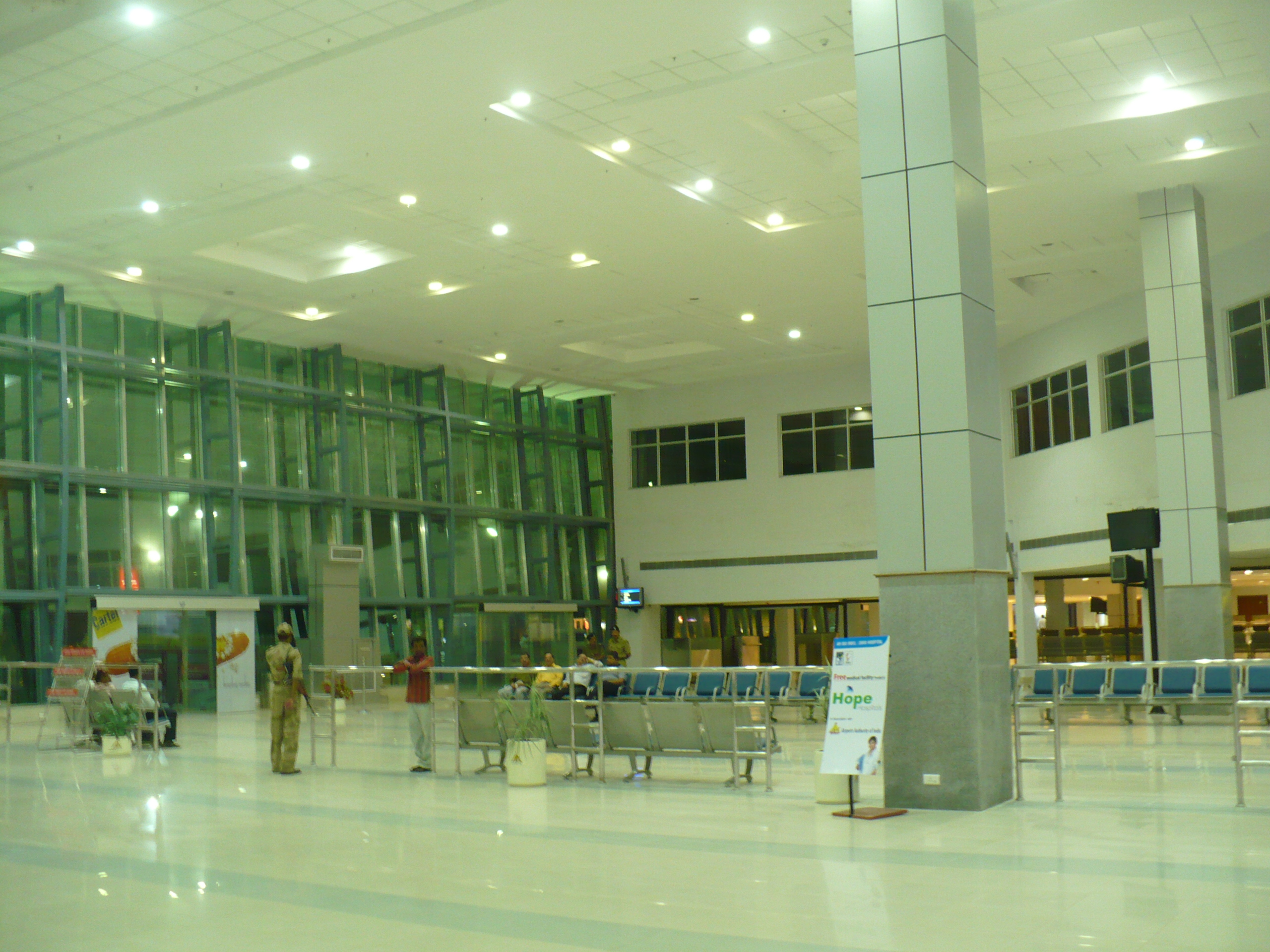 I took this image